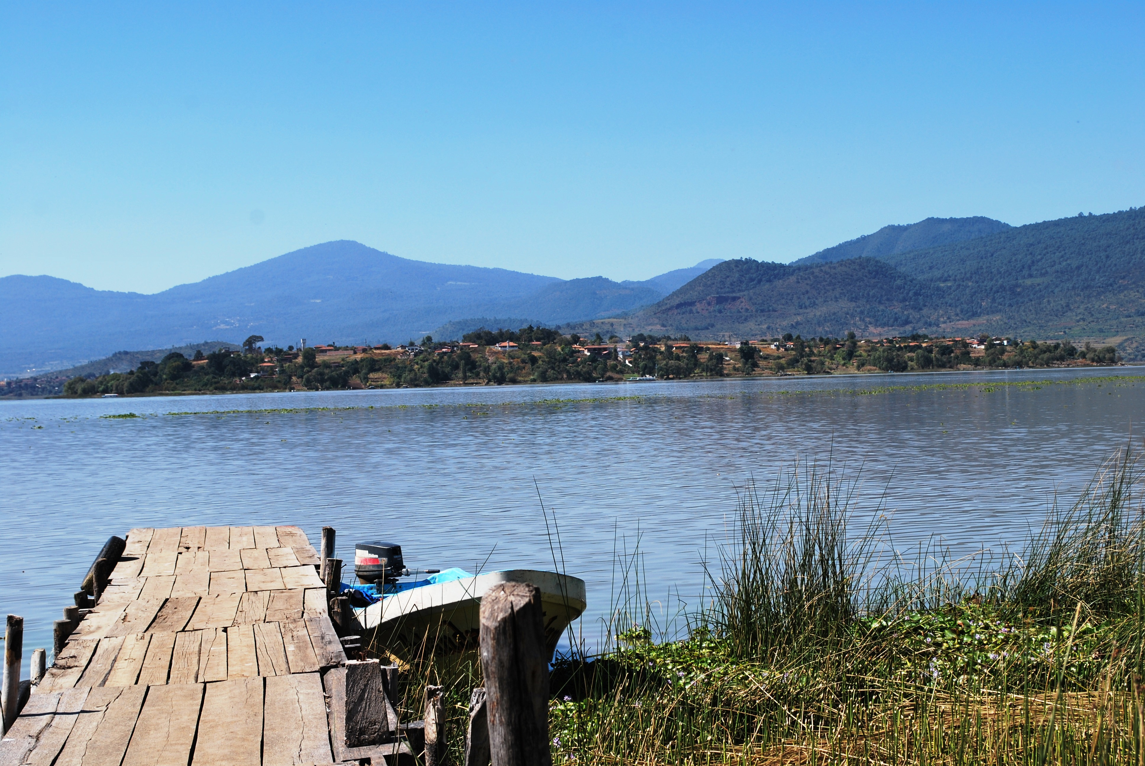 View of Pacanda Island from Ucazanastacua, Tzintzuntzan, Michoacan